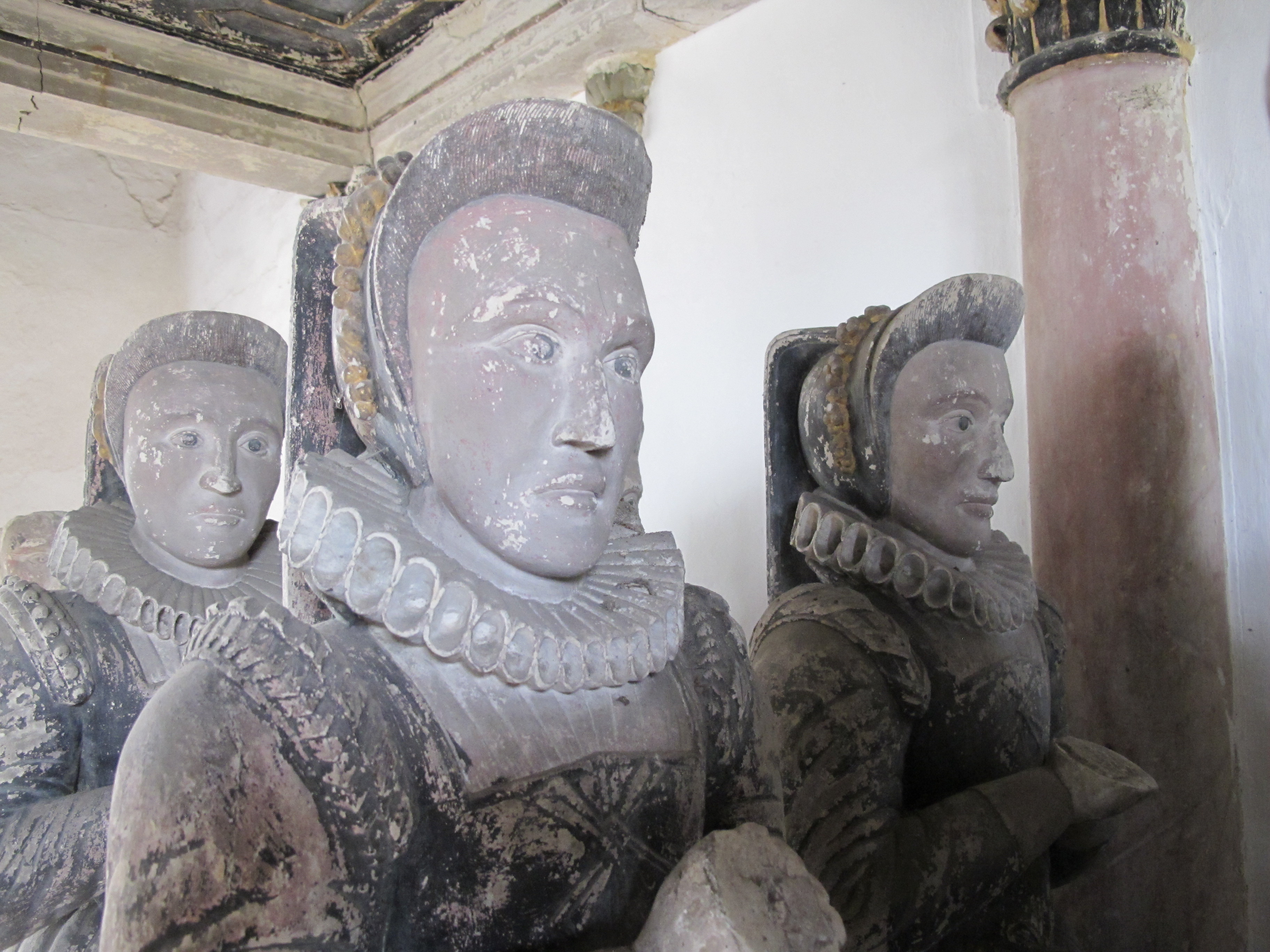 Three of the married daughters of Sir Edward and Dame Susan Lewknor, from the monument at Denham, West Suffolk (1605). Probably (left to right) Martha Gurney, Hester Quarles and Anne Rodes.